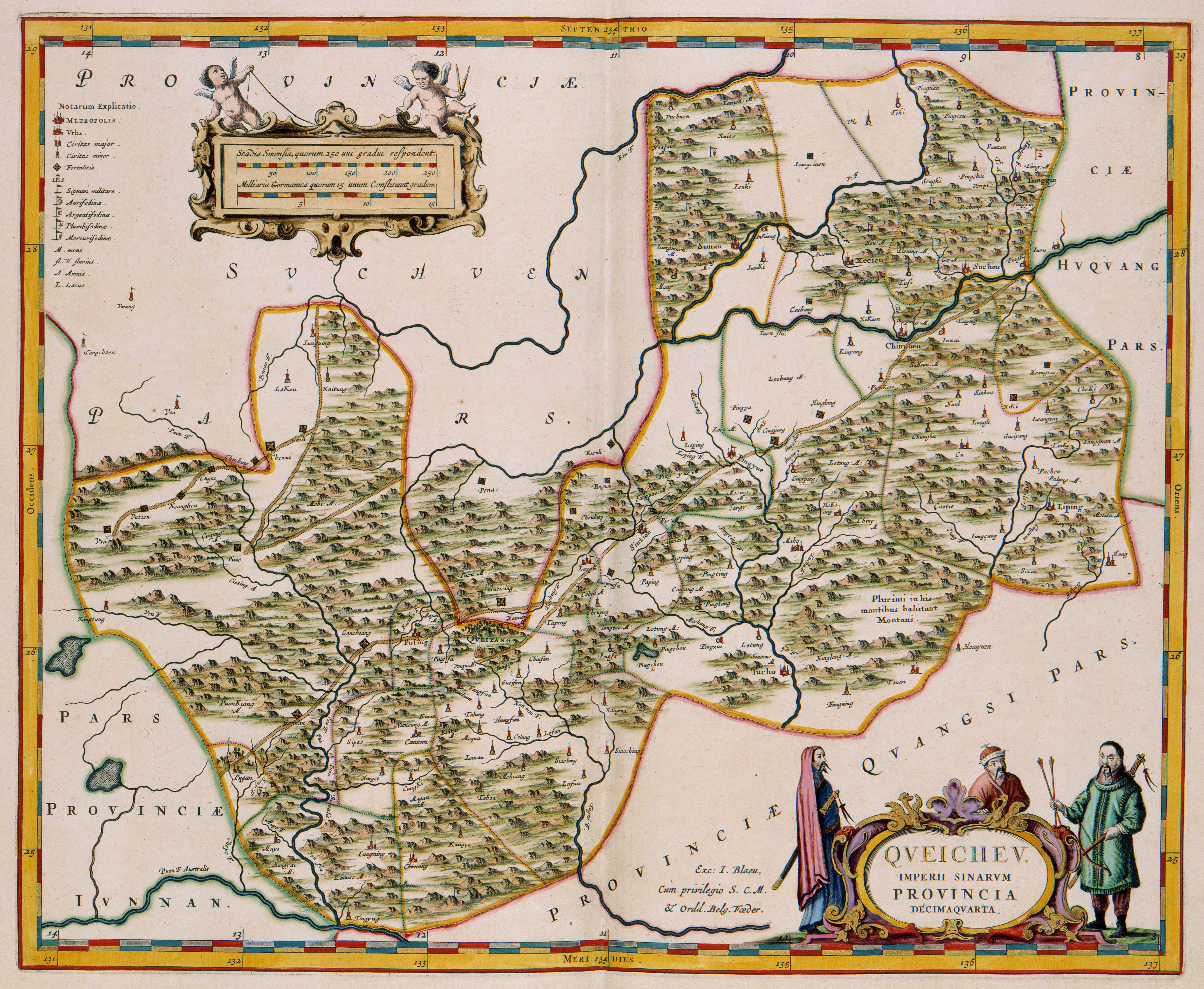 The map of the Chinese province Guizhou was part of an atlas of China composed by the Italian missionary Martino Martini (1614-1661). On his way back to Rome, Martini stopped in Amsterdam where he sold his atlas to Joan Blaeu (1598-1673). From 1655 Blaeu published Martinis atlas as the Atlas Sinensis", the atlas of China, in several languages. The Atlas Sinensis also became an integral part of the Atlas Maior in 1662.